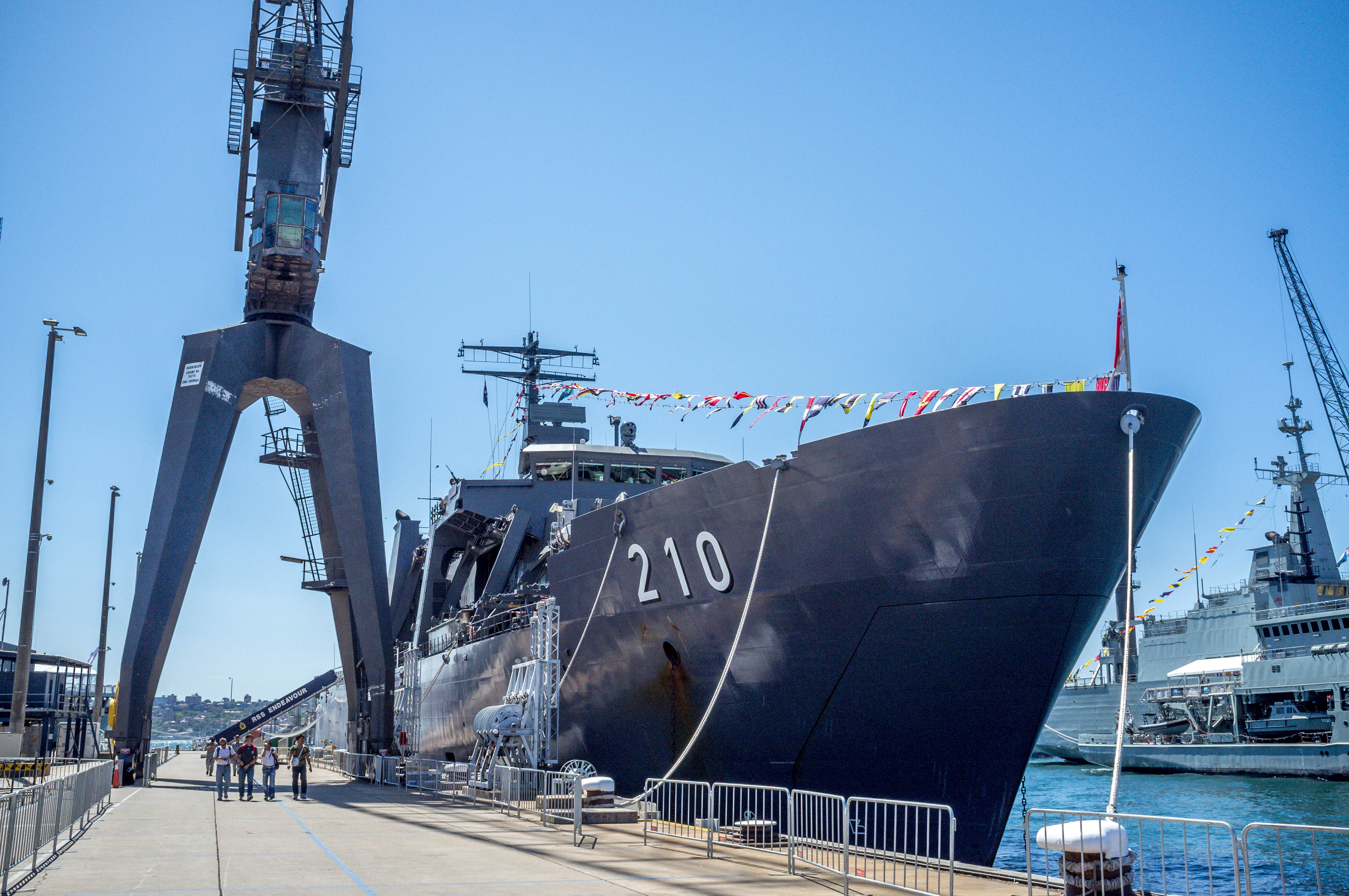 Captain Cook Dock Precinctk, Garden Island